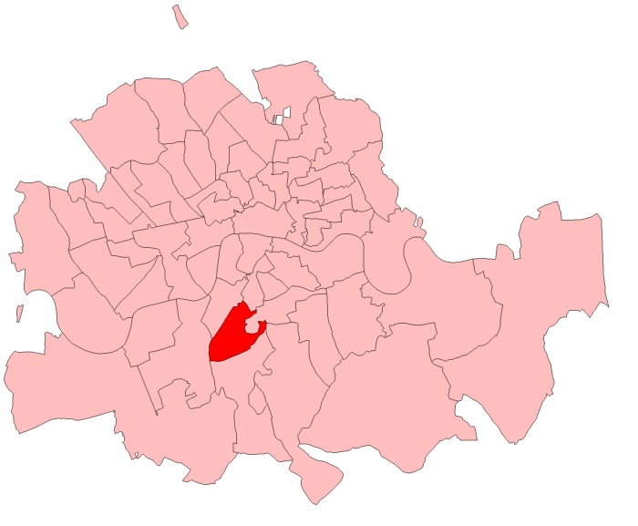 A map of Brixton constituency within the Metropolitan Board of Works area, as it existed from 1885 to 1918.